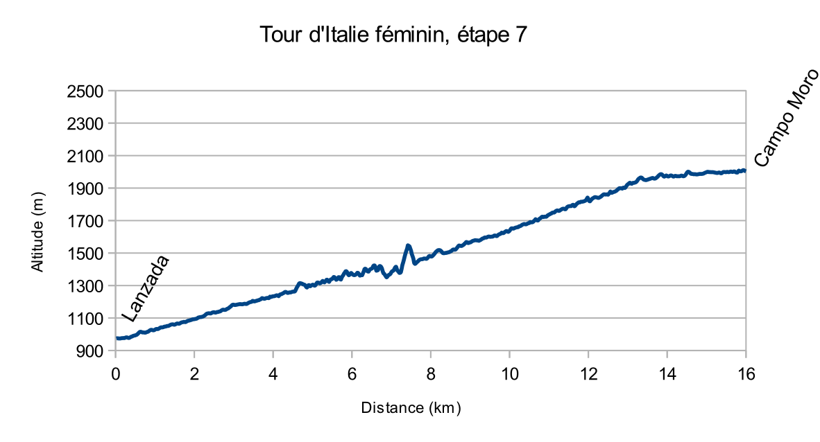 Profile of stage 7 of Giro donne 2018.